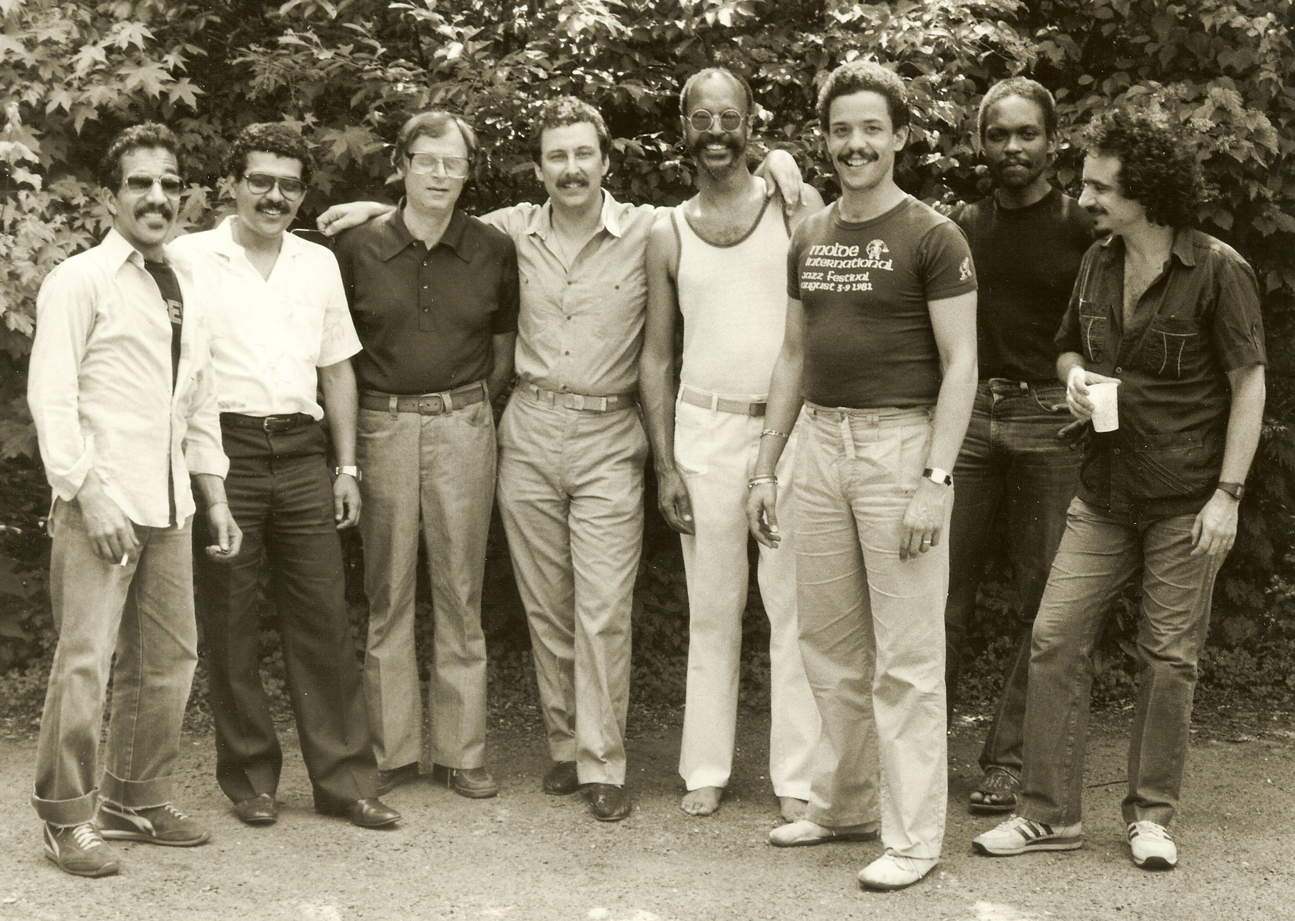 Roger Dawson Septet at Rudy Van Gelder's Englewood Cliffs studio (from left, Milton Cardona, Hilton Ruiz, Rudy Van Gelder, Roger Dawson, John Betsch, John Purcell, Anthony Cox, Claudio Roditi)